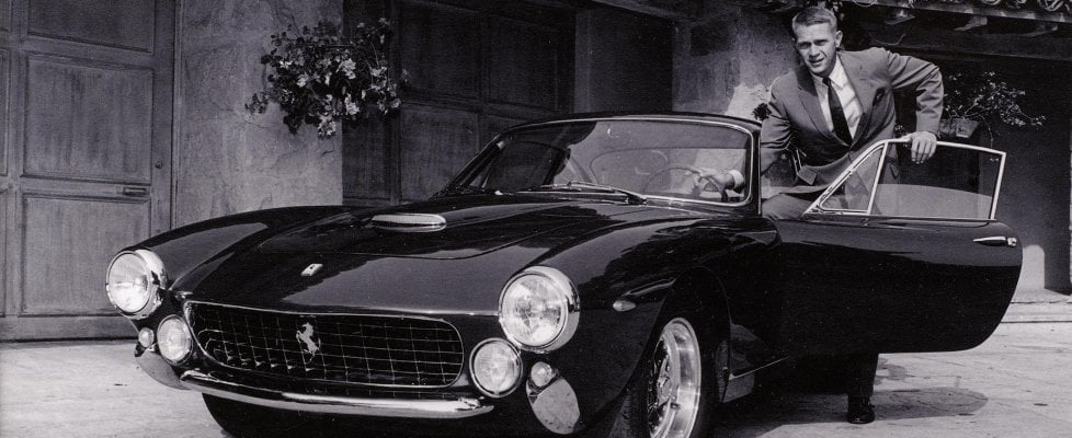 Steve McQueen entering his 1962 Ferrari 250 GT Lusso.